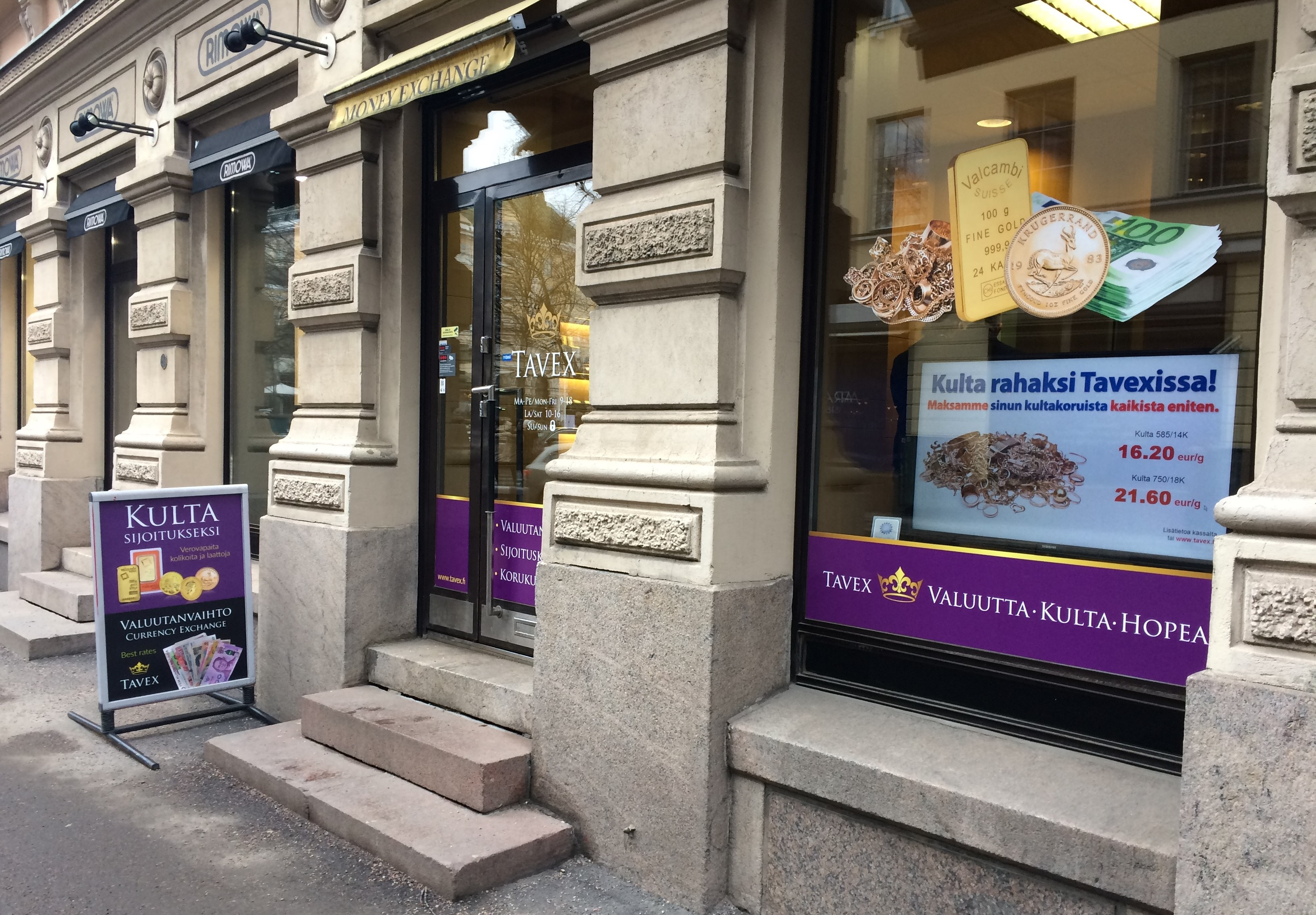 Tavex OY toimipiste Fabianinkatulla